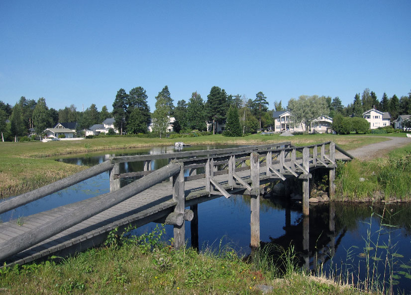 Noljakka coast of lake Pyhäselkä, Joensuu